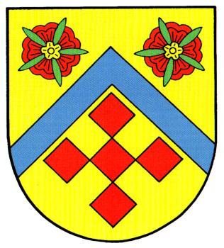 Coat of arms of the municipality of Dötlingen